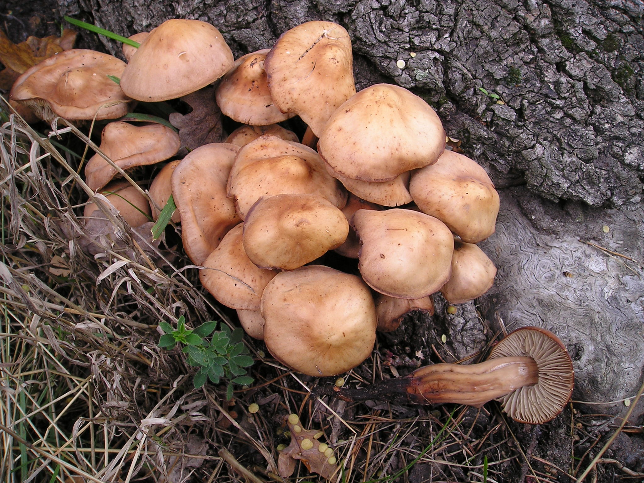 Photo taken in a French wood near Rambouillet